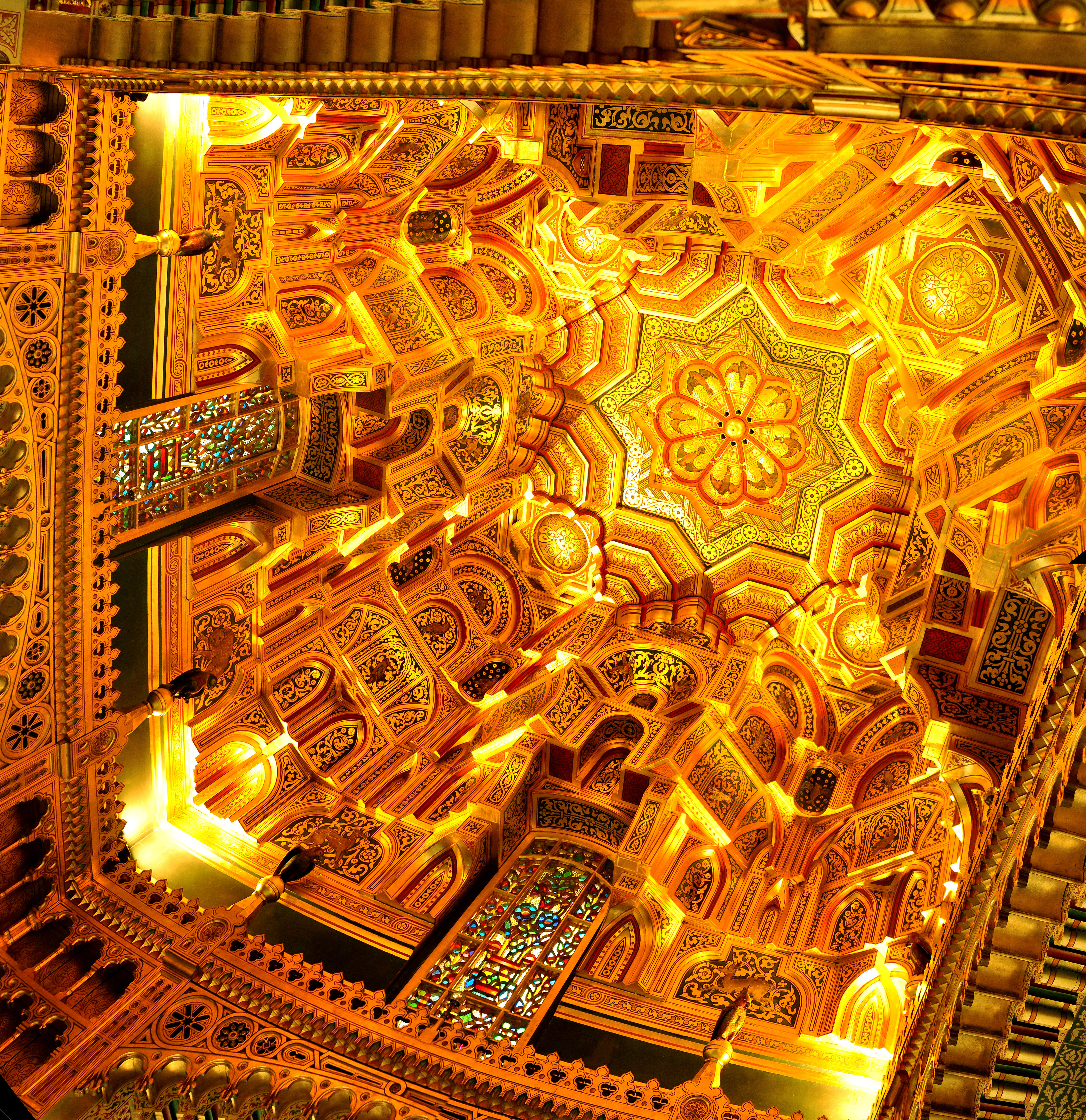 Panorama of the Arab Room Ceiling in the Cardiff Castle Apartments. Photo by Gregg M. Erickson.